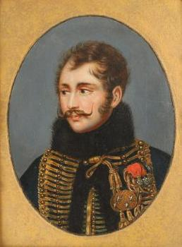 Photograph of an oil painting on tin of Antoine Charles Louis, comte de Lasalle, by an unknown artist, in the uniform of a French cavalry general, circa 1810.